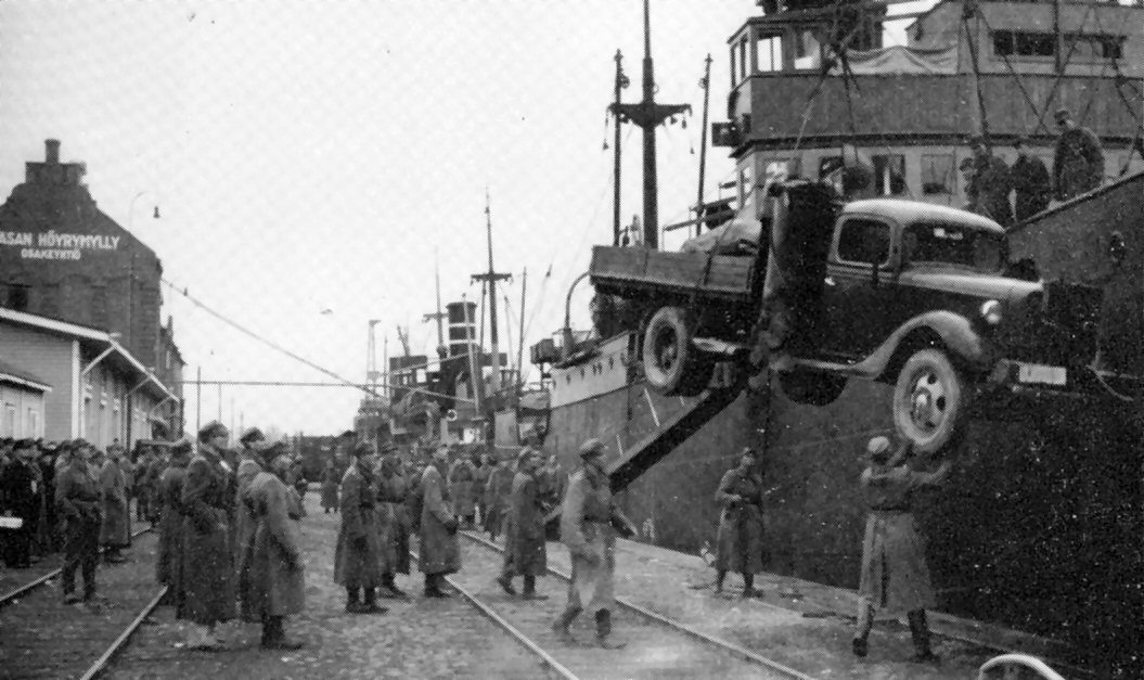 Finnish landing troops for Tornio are being loaded onboard in Oulu Toppila harbour during Lapland War in Finland. THe truck is equipped with a wood gas generator